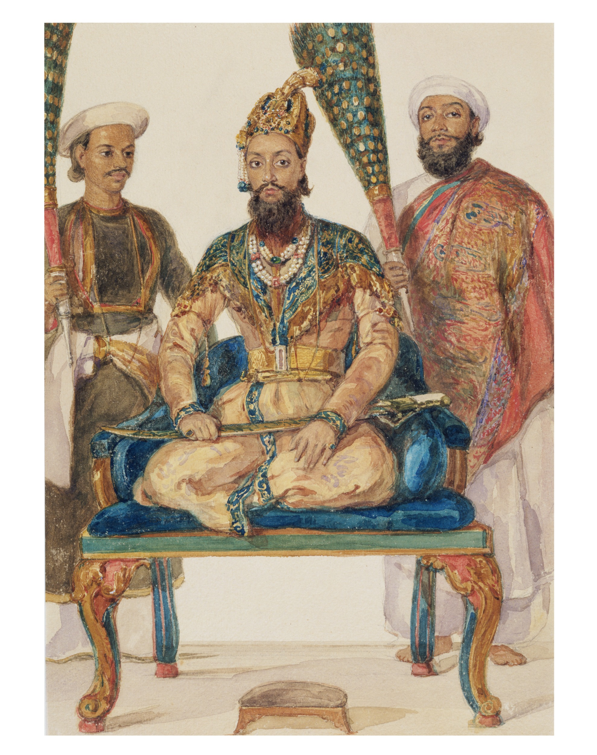 Prince Fakhr-ud Din Mirza, eldest son of Bahadur Shah II, in February 1856, before he died five months later on 10 July 1856.